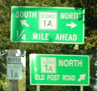 Various signs for RI 1A; the RI/SCENIC/1A is unique. Taken September 7, 2003 by User:SPUI.